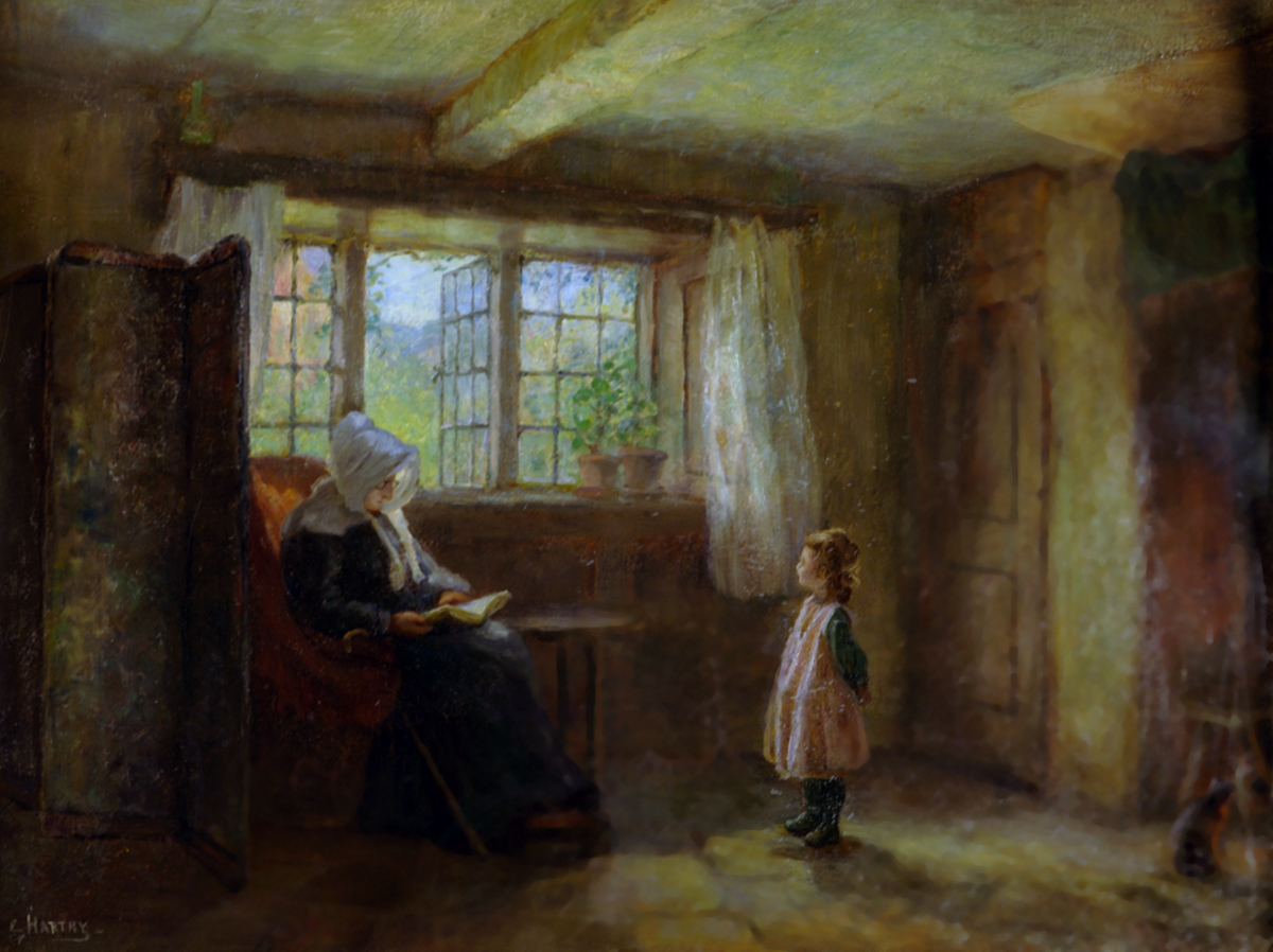 Oil on Canvas